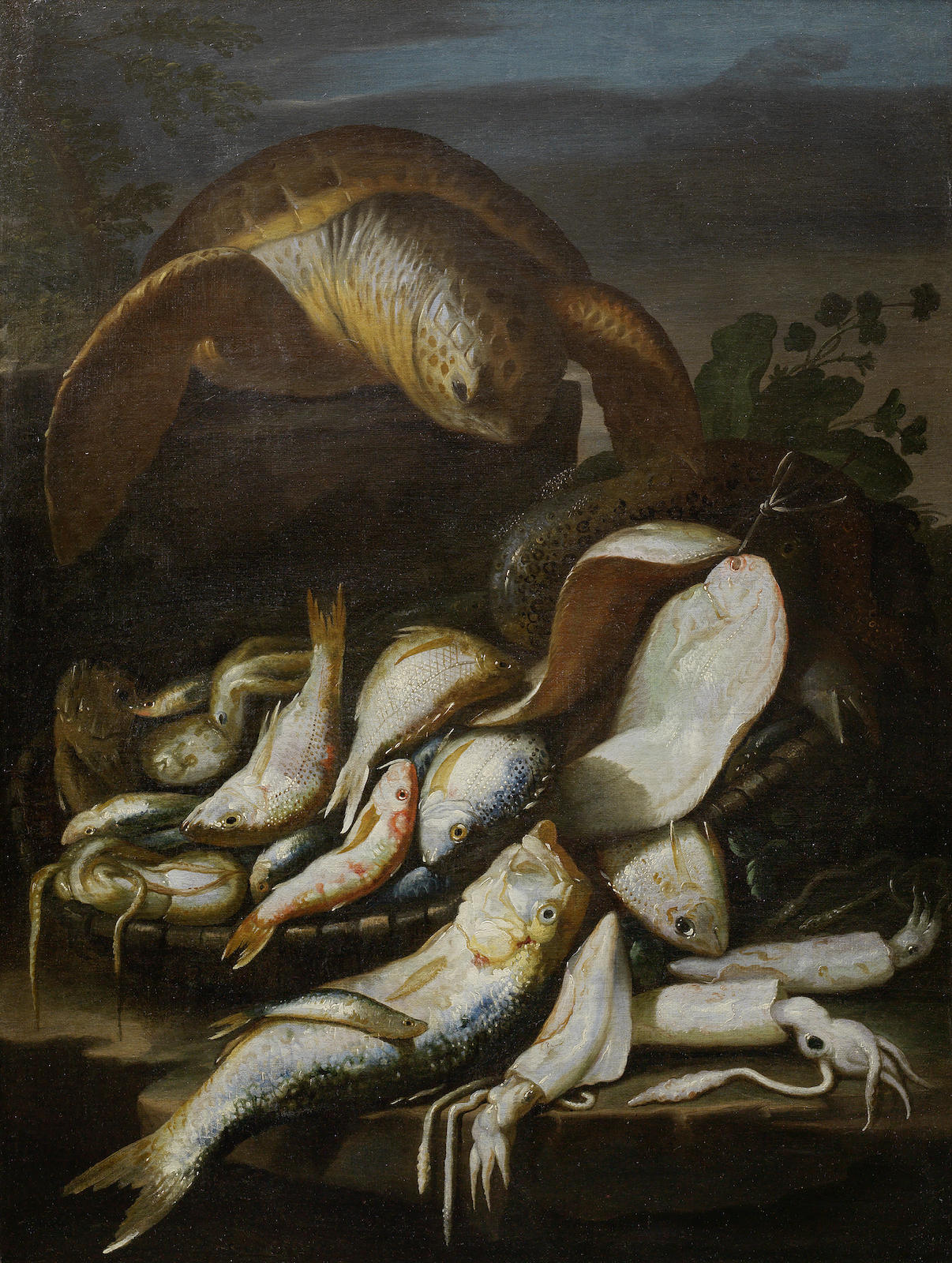 A sea turtle with an assortment of fish and squid spilling from a basket